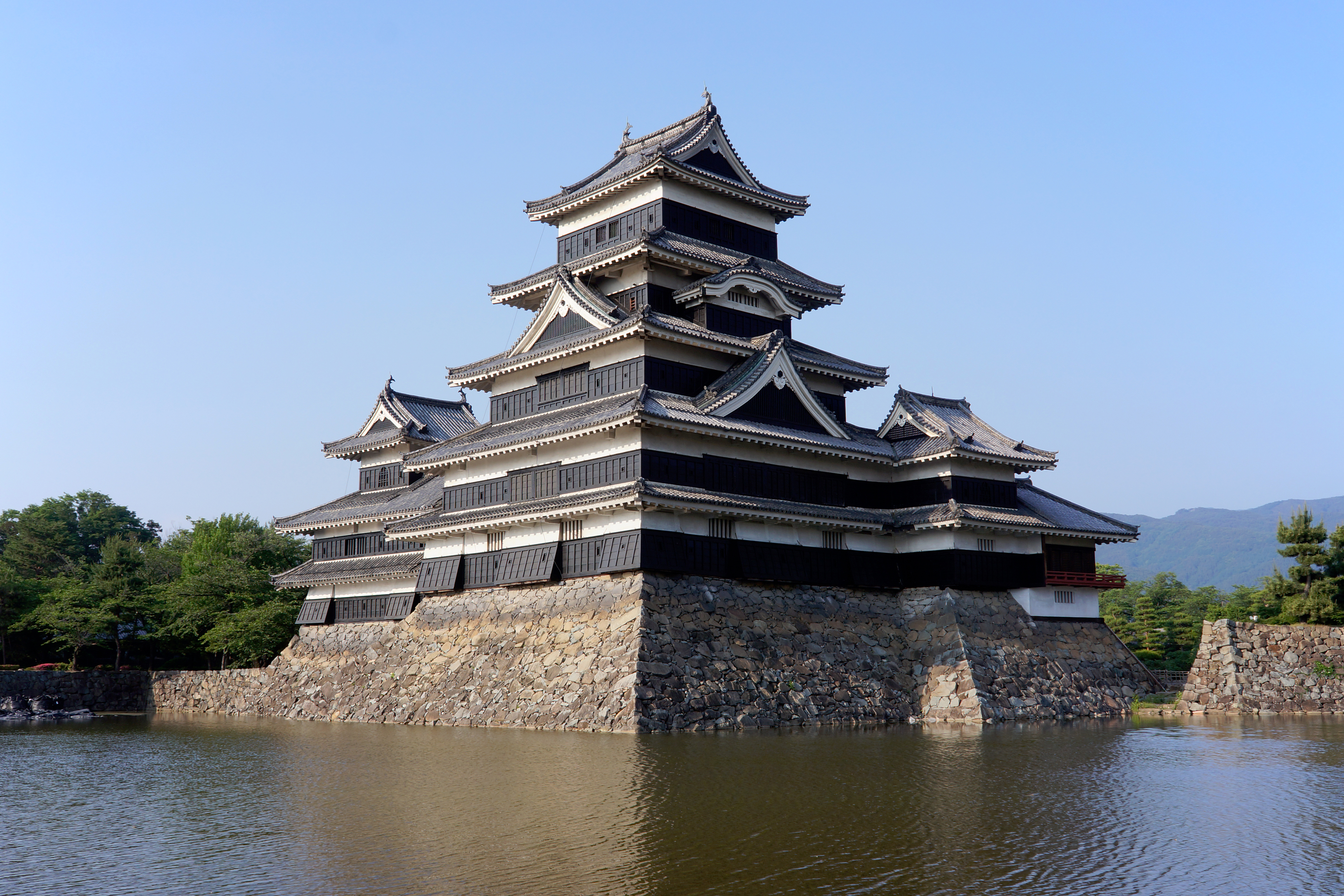 Matsumoto Castle is a National Treasure of Japan in Matsumoto, Nagano prefecture, Japan.